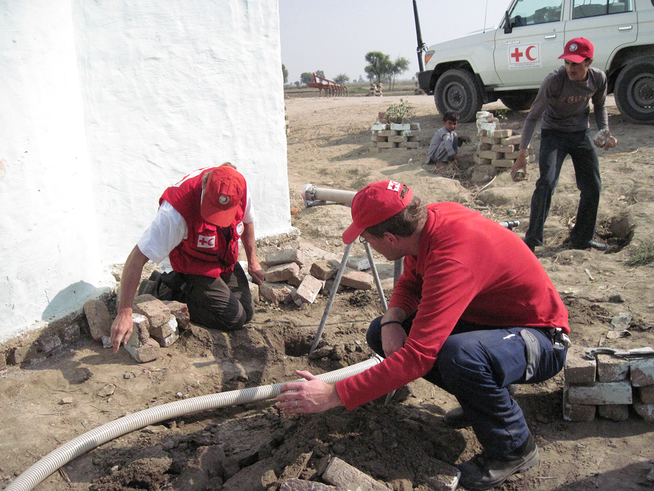 The drinking water specialist's Rainer Romirer (Austria, in the foregrund) and Tomas Arleöm (Sweden, left) are building a water distripution system.